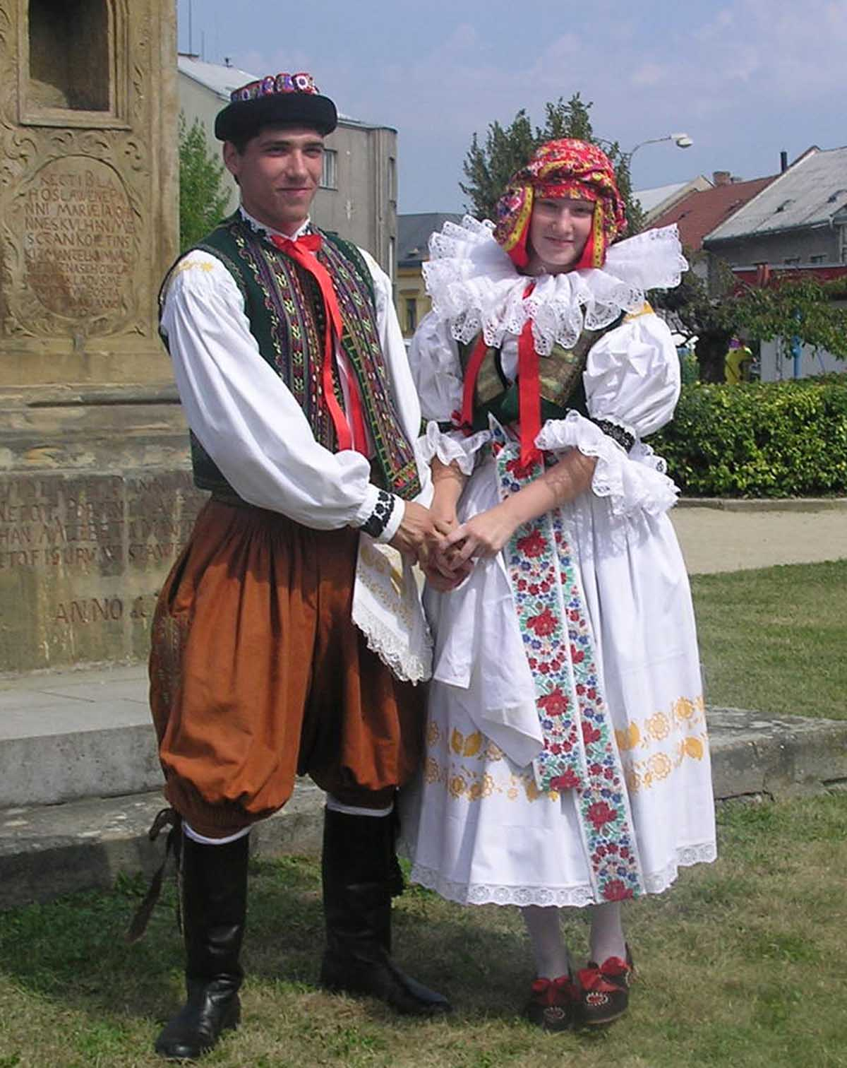 National costumes of Haná region